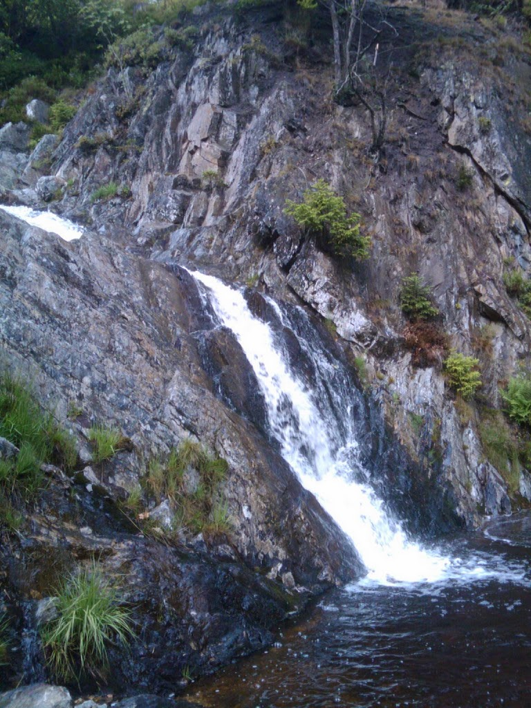 The Cascade du Bayehon in Longfaye (Belgium) is the second biggest natural waterfall of Belgium.